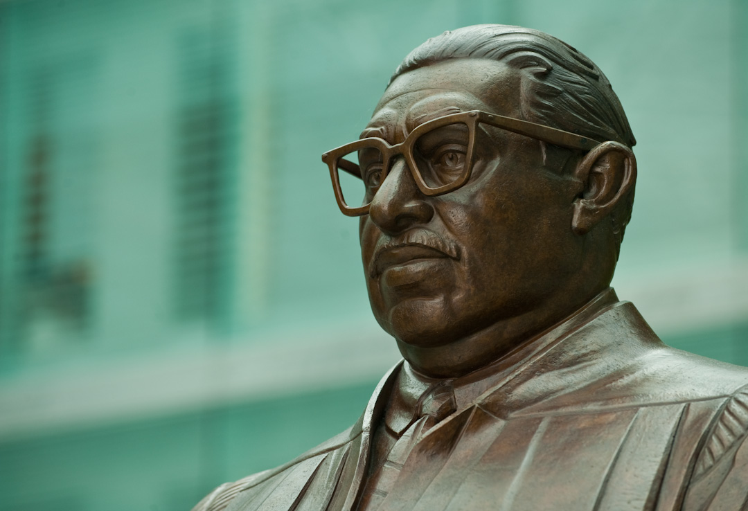 Bust of Thurgood Marshall located in the Thurgood Marshall Judiciary Building. Thurgood Marshall served on the U.S. Supreme Court from October 1967 until October 1991. He was the court's first African-American justice. This official Architect of the Capitol photograph is being made available for educational, scholarly, news or personal purposes (not advertising or any other commercial use). When any of these images is used the photographic credit line should read “Architect of the Capitol.” These images may not be used in any way that would imply endorsement by the Architect of the Capitol or the United States Congress of a product, service or point of view. For more information visit